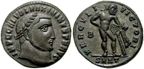 MAXIMINUS II. 309-313 AD. Æ Follis (21mm, 5.47 gm). Heraclea mint. Struck circa 313 AD. IMP C GAL VAL MAXIMINVSP F AVG, laureate head right HERCVLI VICTORI, Hercules, laureate, standing facing, head right, leaning on club with lion skin draped over arm; B/SMHT. RIC VI 77.